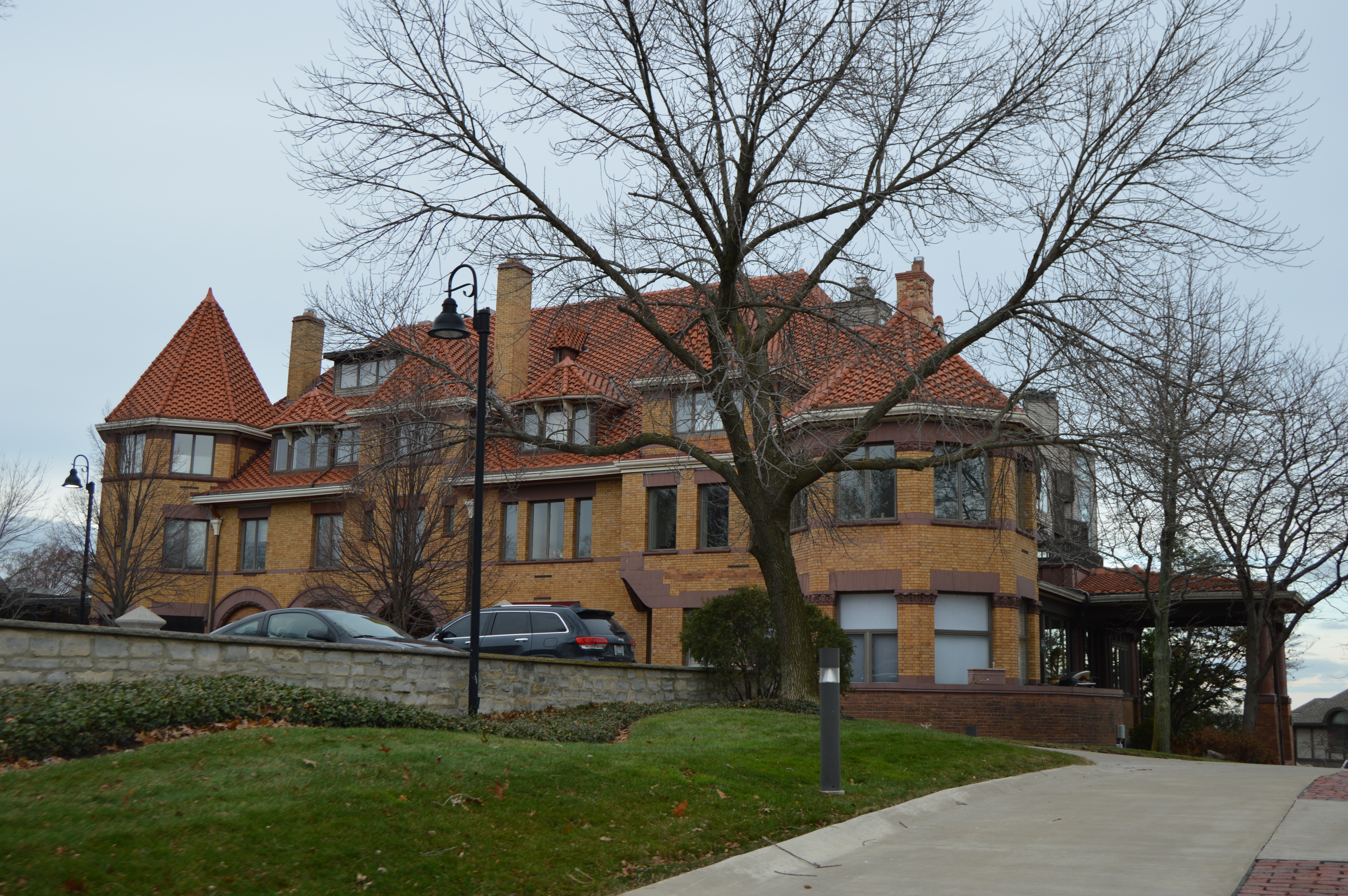 Front of the Bay View Hospital (now an old people's home), located at 23200 Lake Road (U.S. Route 6) in Bay Village, Ohio, United States. Built in 1898, it is listed on the National Register of Historic Places.